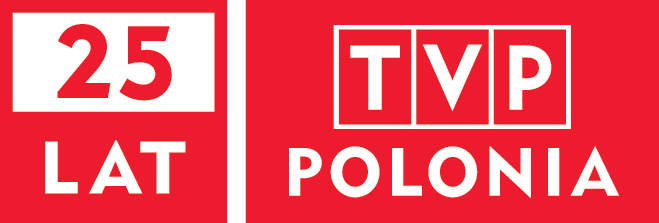 TVP Polonia - 25 years